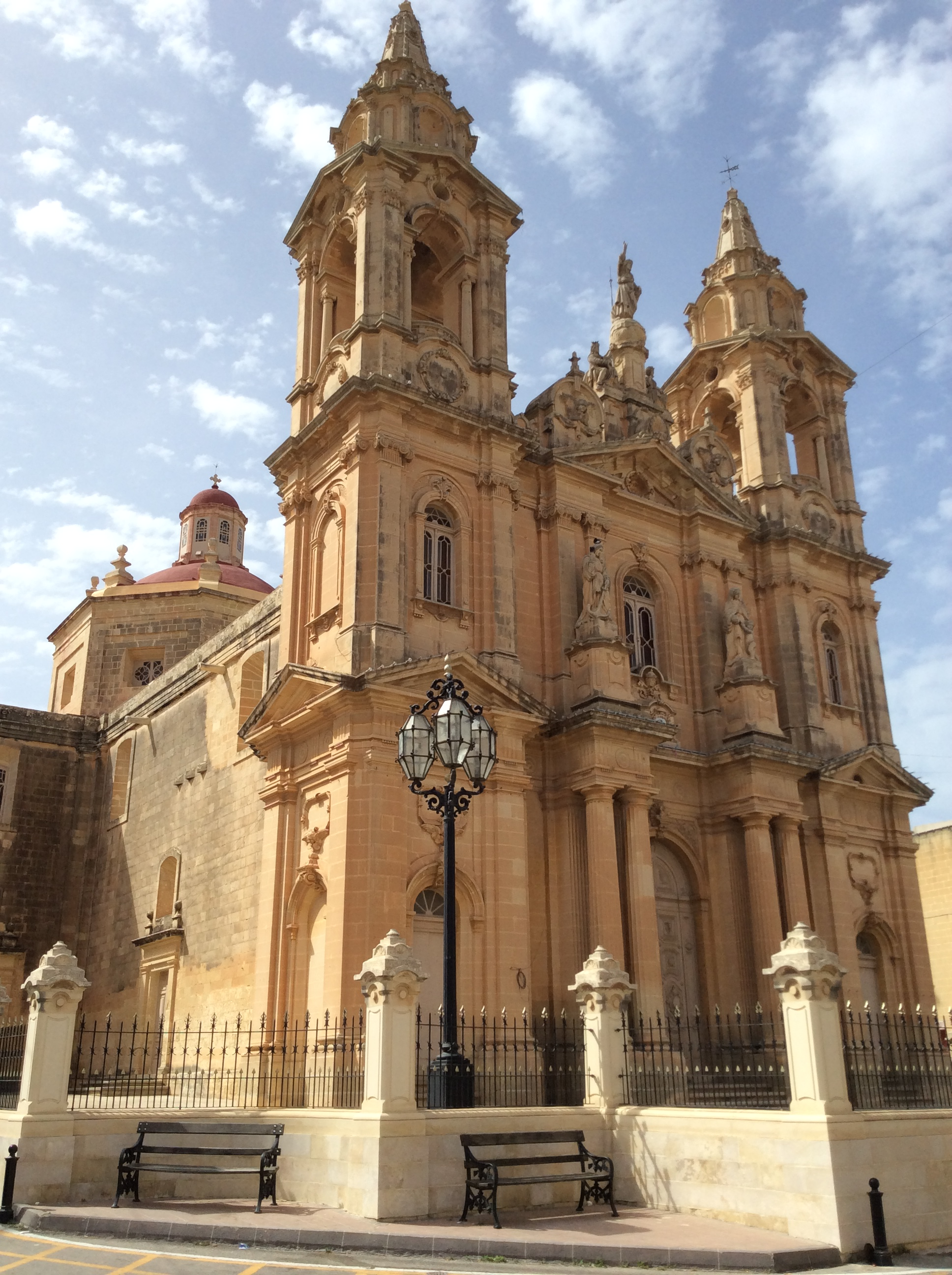 Parish Church of the Assumption This media is about Maltese cultural property with inventory number 01835.